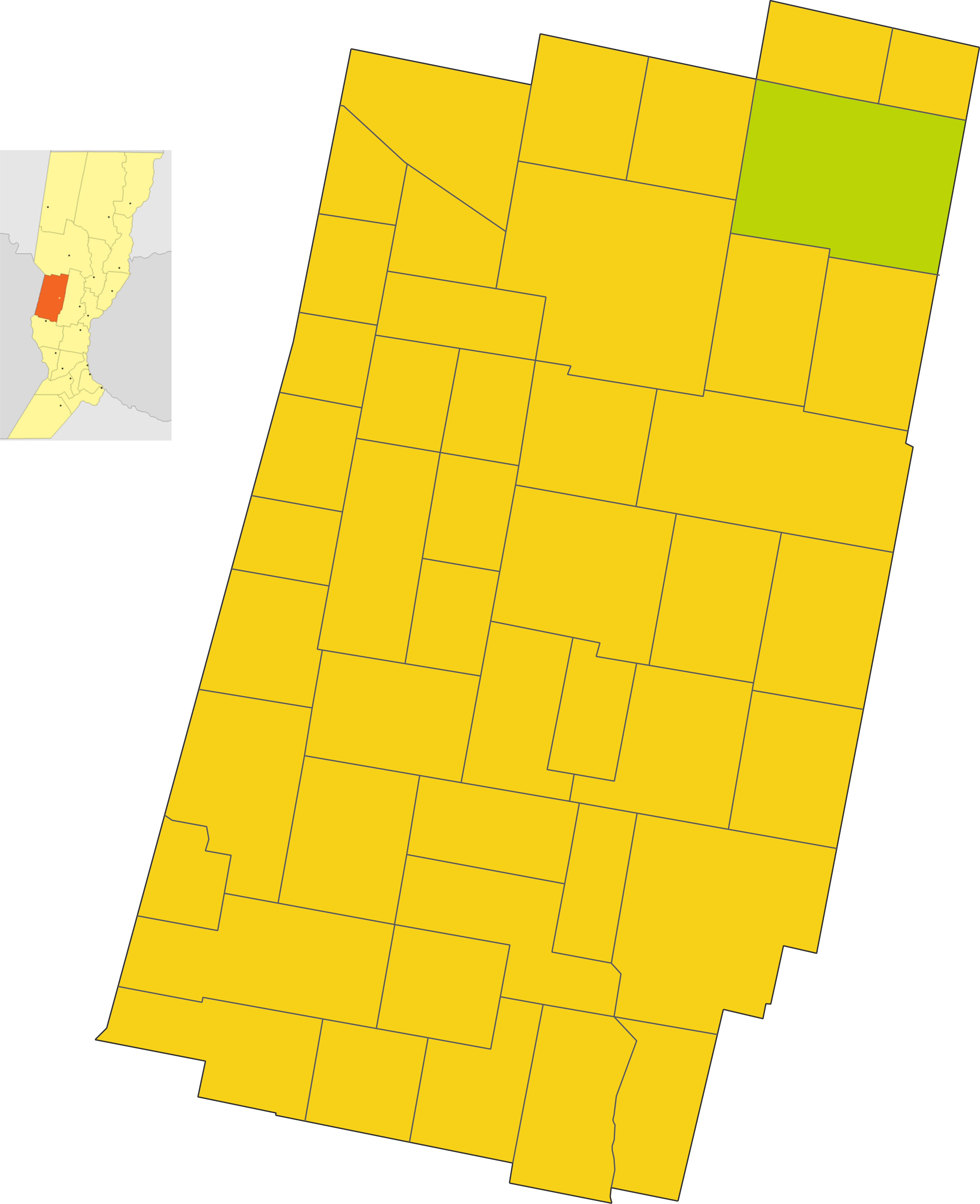 Map of the comuna de Humberto primo in Castellanos department, Santa Fe province, Argentina